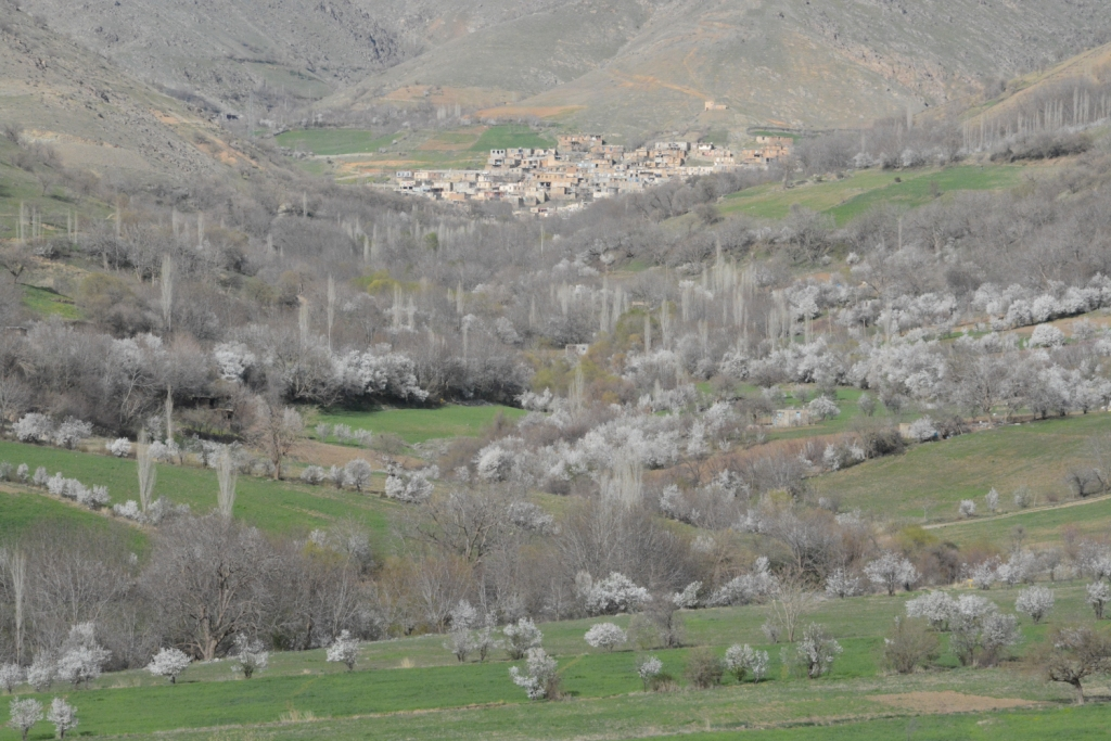 A view of Goshxani in spring 2014.